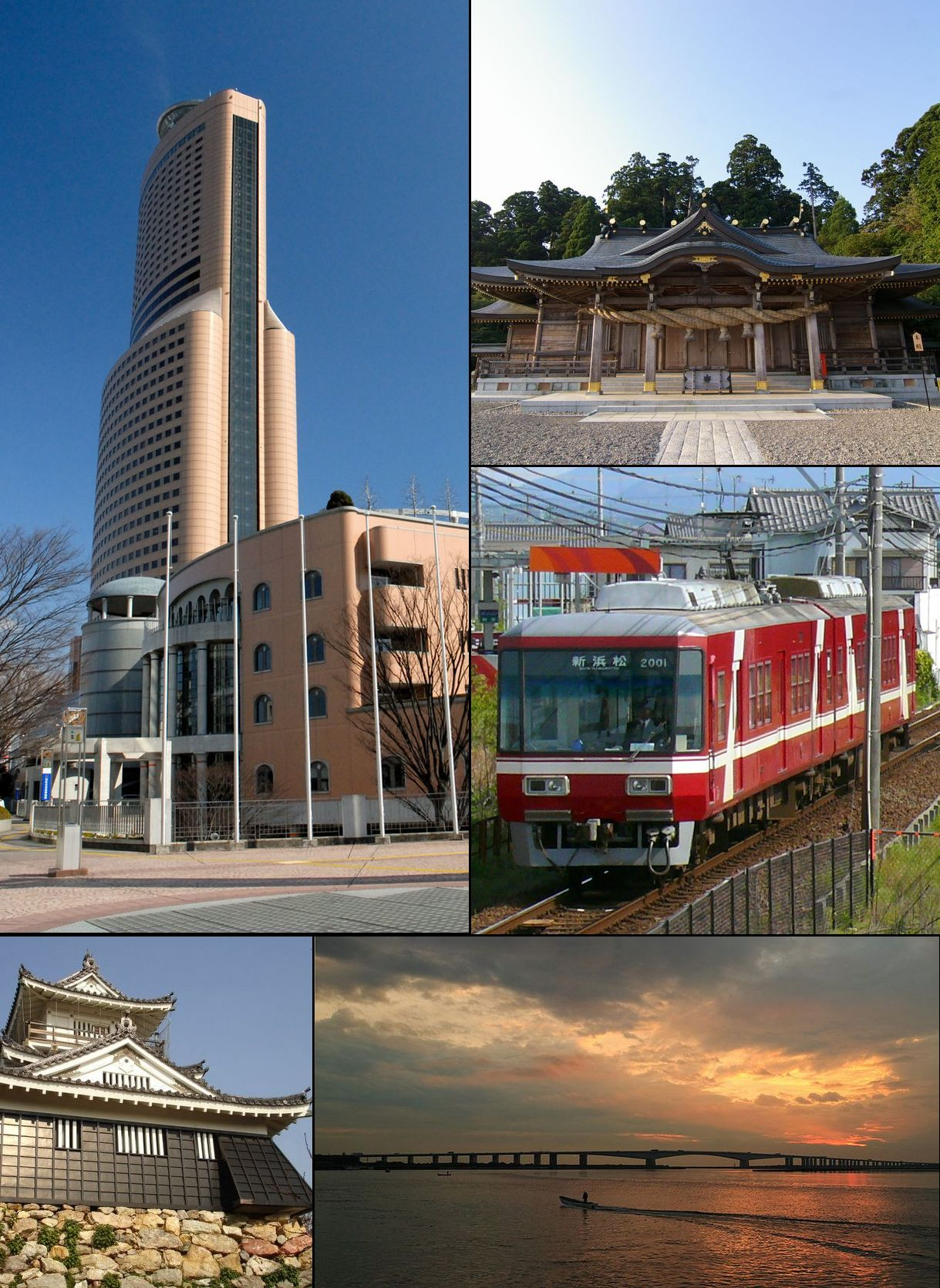 Hamamatsu City, Shizuoka Prefecture, JAPAN From top left:Act City Hamamatsu, Akihasan Hongū Akiha Jinja, Enshu Railway Line, Hamamatsu Castle, Hamana Ōhasi